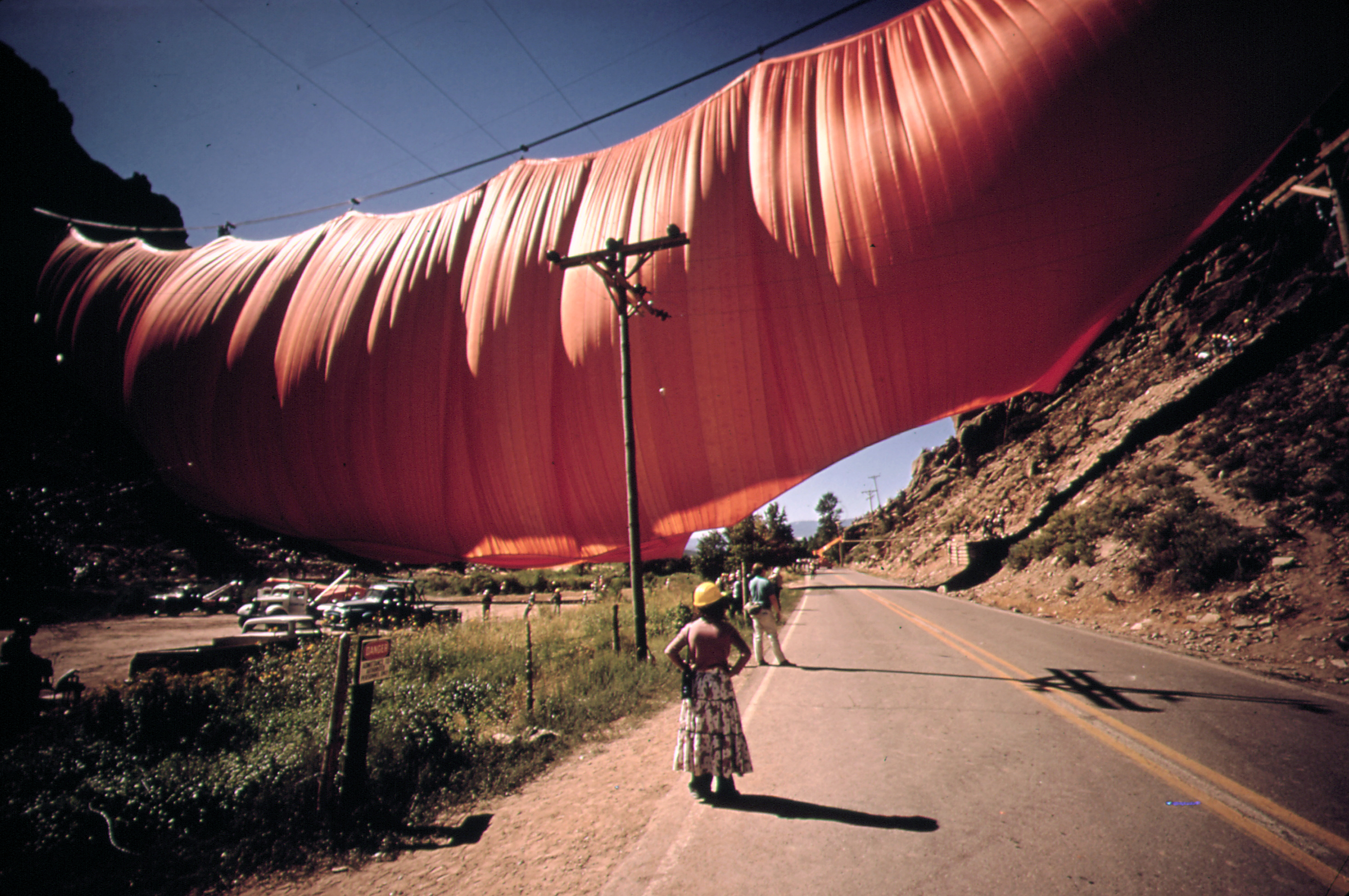 A SIX-TON CURTAIN BILLOWS ACROSS RIFLE GAP - CONCEIVED BY ARTIST CHRISTO JAVACHEFF, EXECUTED AT A COST OF $700,000. THE "CURTAIN" WAS RIPPED TO SHREDS BY CANYON WINDS IN 24 HOURS.